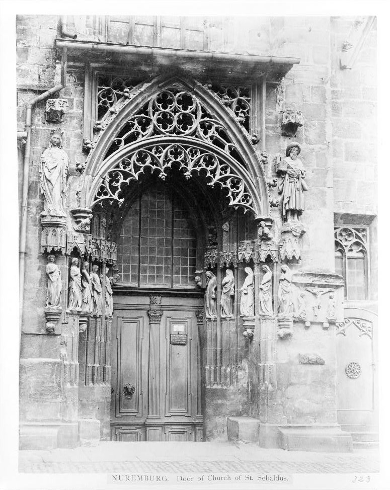 Nuremburg. Door of Church of St. Sebaldus.